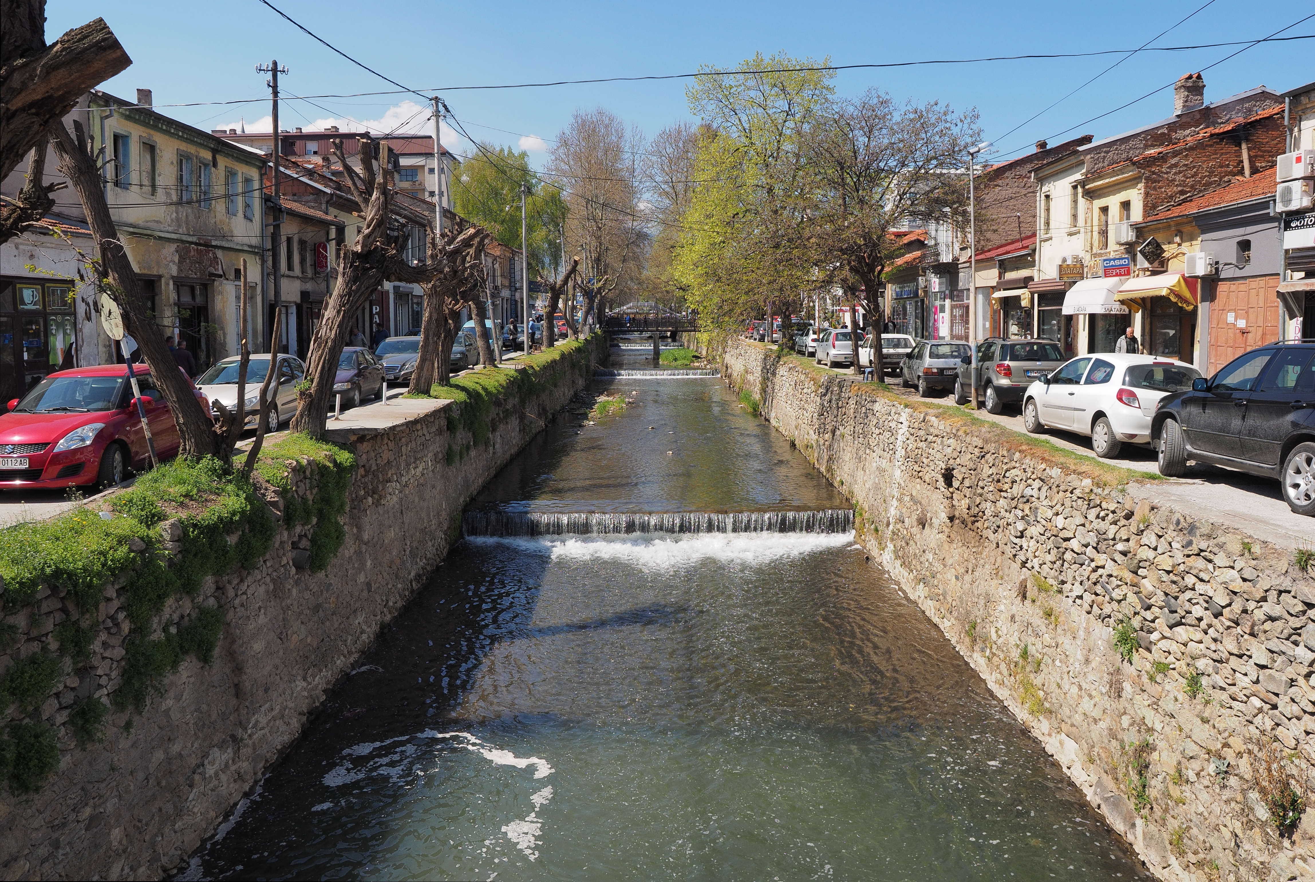 Dragor river in Bitola, Macedonia Српски (ћирилица): Река Драгор у центру Битоља This photograph was taken with an Olympus E-M1